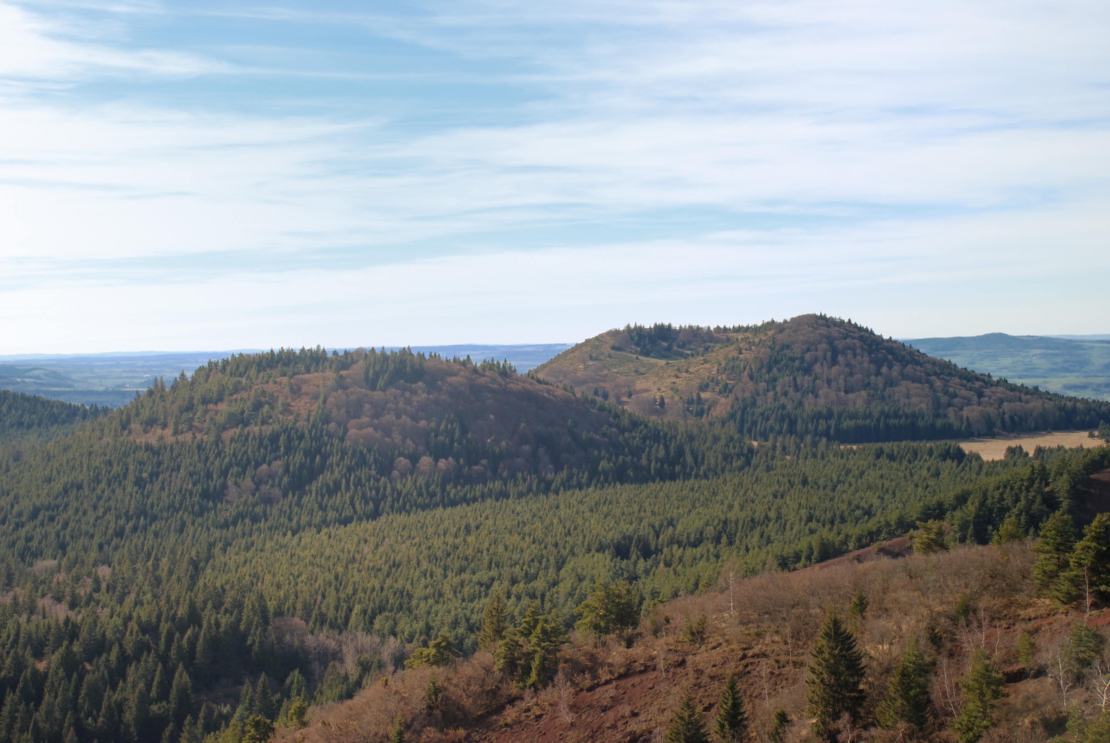 Puy de Montjuger (on the left, 1093 m) and puy de Pourcharet (1164 m). Picture taken from the puy de Lassolas (Puy-de-Dôme, France).